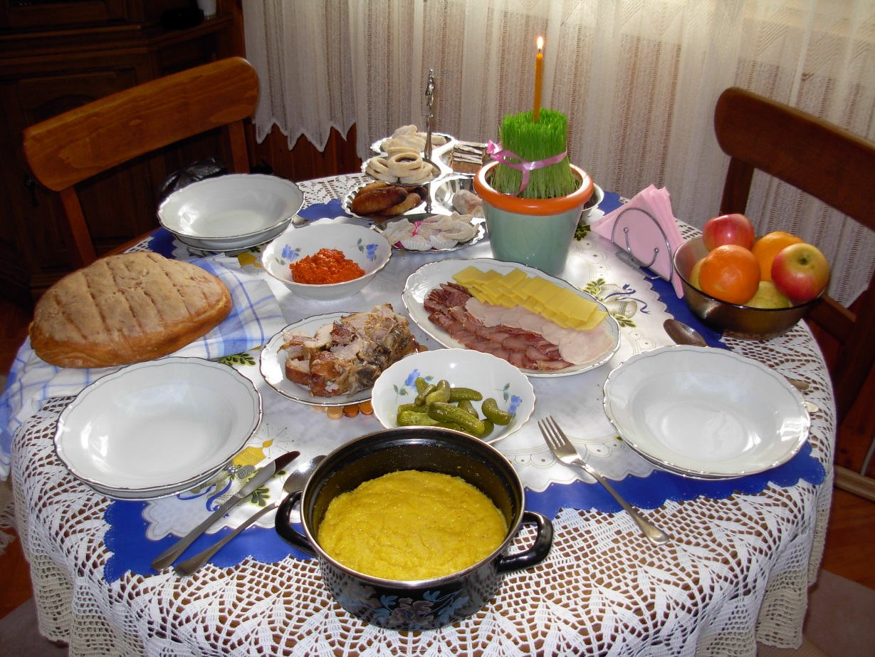 Serbian table for Orthodox Christmas, 2011.